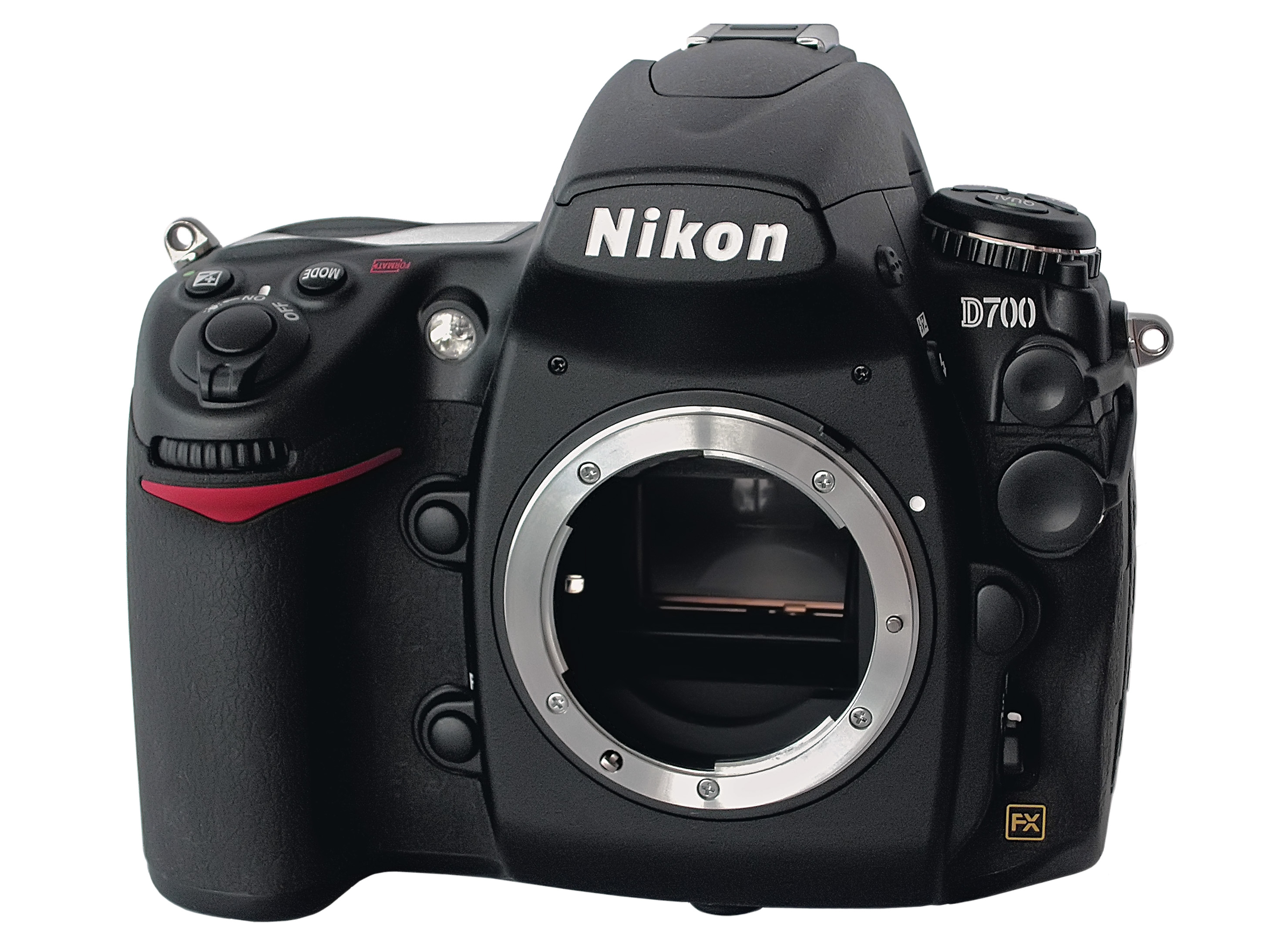 Nikon D700, body front view